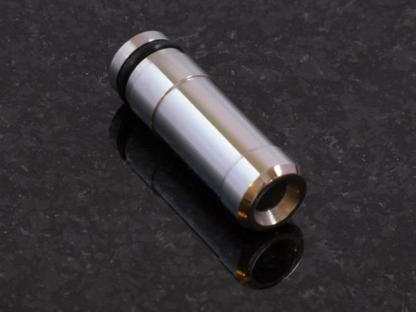 Stainless Steel T-Tip from Super-T Manufacturing. With a bigger thru hole, the T-tip replaces the stock electronic cigarette plastic tip and cartridge and is intended for direct dripping.